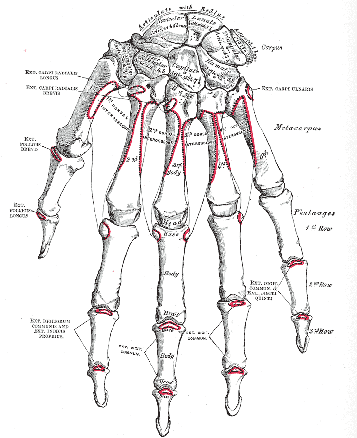 Bones of the right hand. Volar surface.